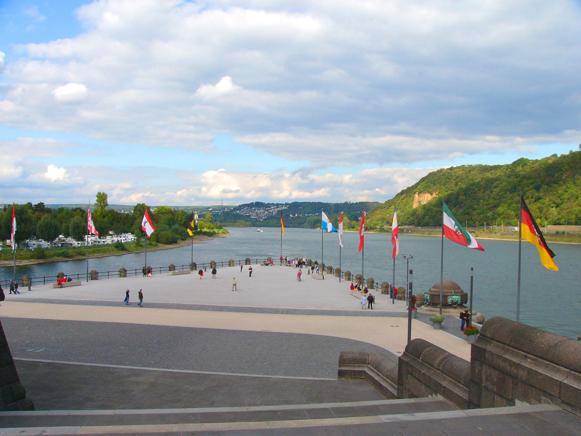 View to Deutsches Eck located at the confluence of Rhine and Moselle Rivers in Koblenz, Germany.